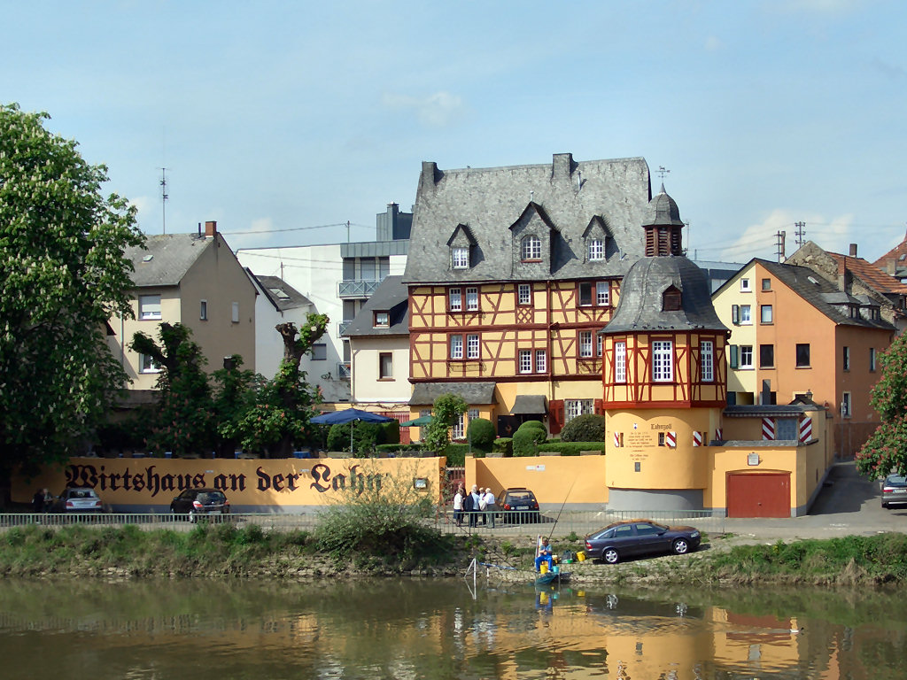 Wirtshaus an der Lahn in Lahnstein